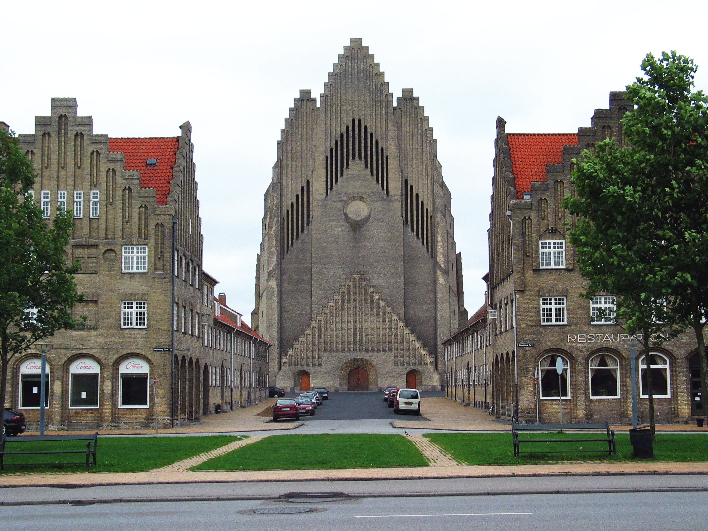 Grundtvig's Church in Copenhagen, Denmark, seen from the west